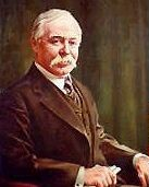 Depicted person: Marcus Daly – American businessman